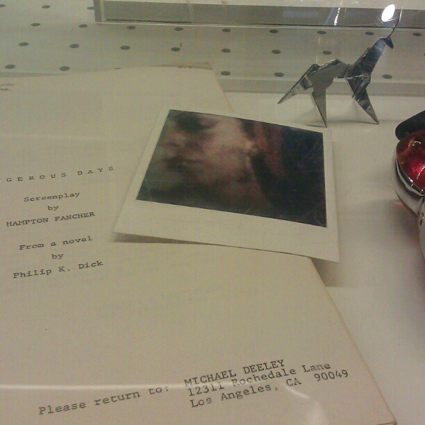 Screenplay, polaroid and origami from the 1982 film Blade Runner displayed at ExpoSYFY (Spain?)